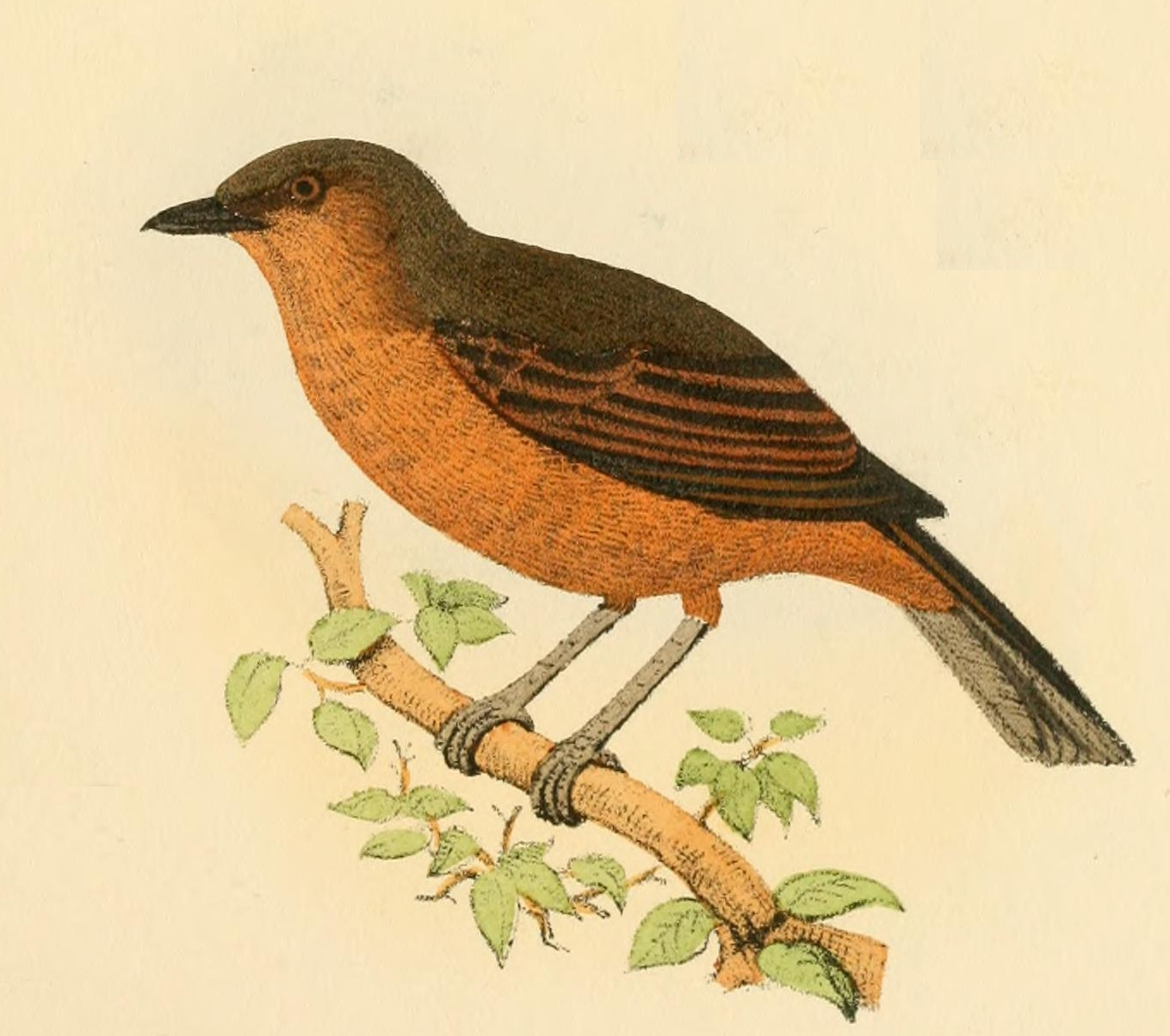 Fig. 3. P vitiensis. Gray (Mus. Godeffroy) Valid name Pachycephala vitiensis Gray, 1860